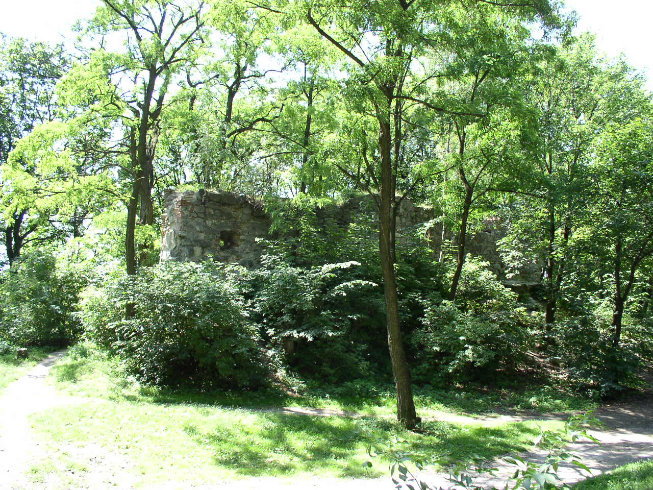 High castle. Lviv, Ukraine.